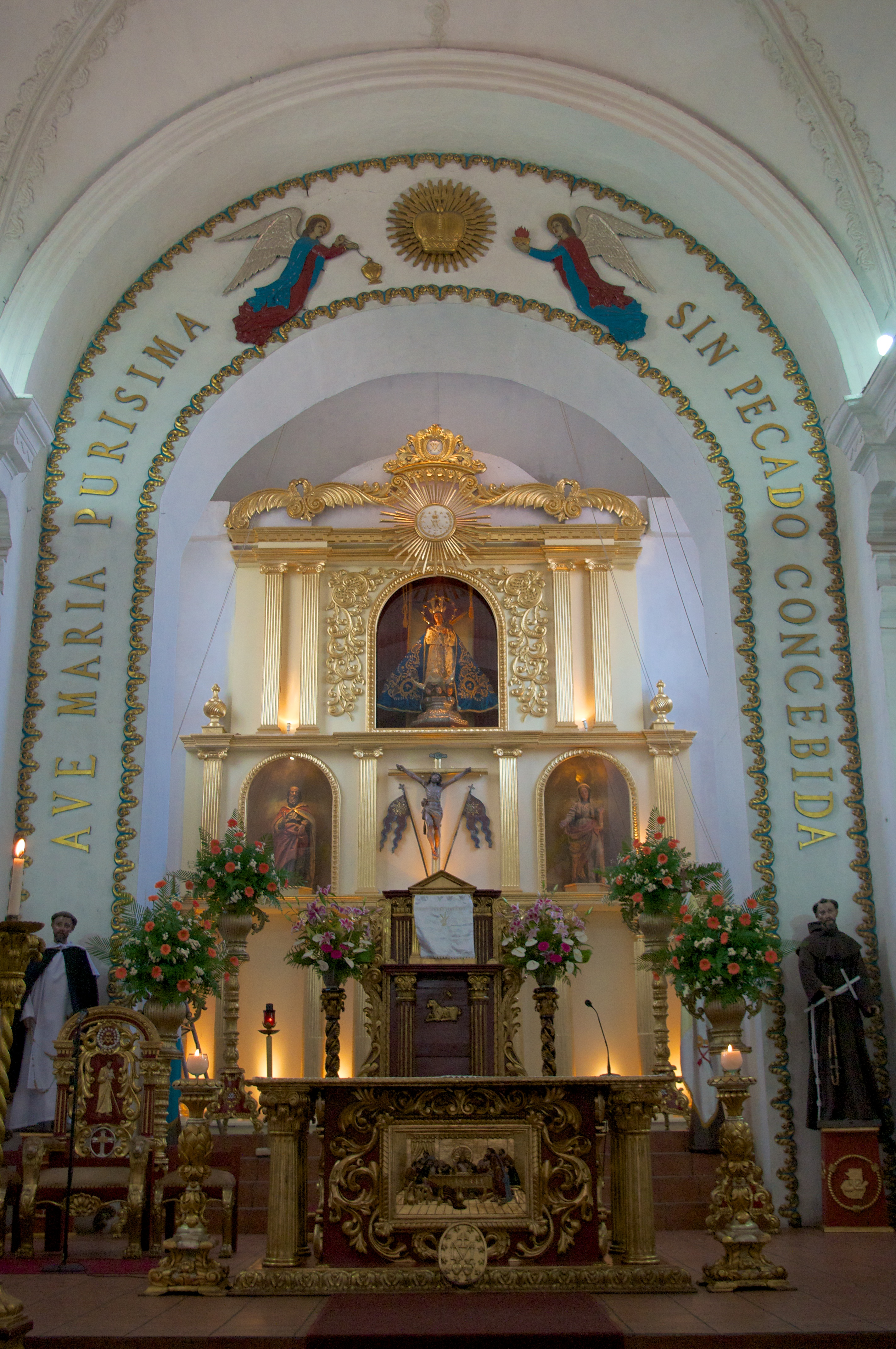 Altar and altarpiece of the Cathedral of Our Lady of Immaculate Conception - Ciudad Vieja - Sacatepéquez - Guatemala